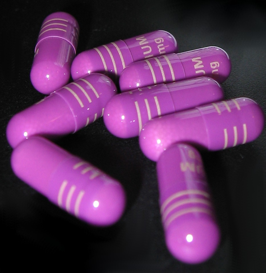 Eight Nexium (esomeprazole magnesium) pills, 40 mg, against a black background.